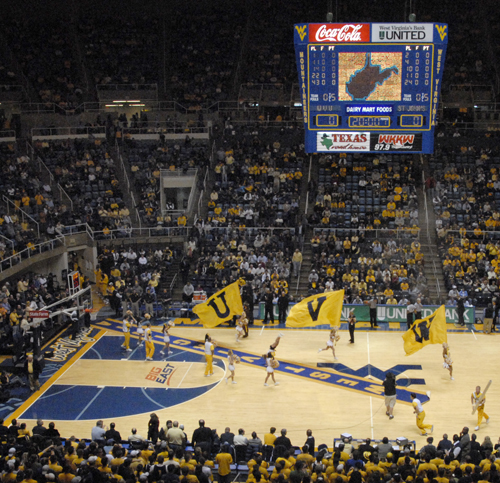 Rolling out the gold and blue carpet for team introductions at a West Virginia University men's basketball game